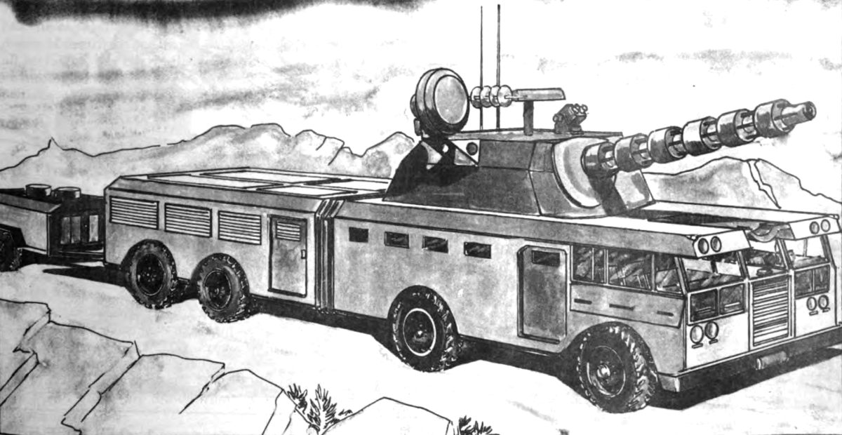 AirLand Particle Beam Terminal Defense System concept